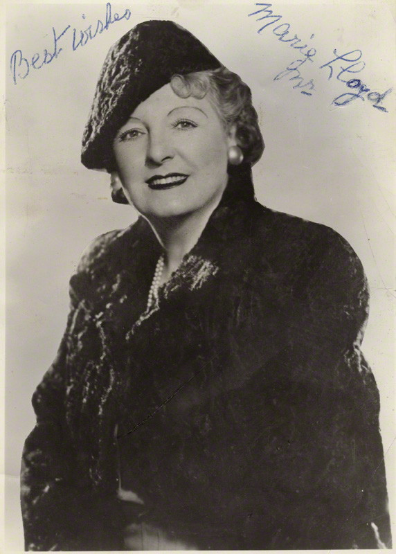 British actress Marie Lloyd Jr. (1888-1967). Her signature appears to be in the top right corner.